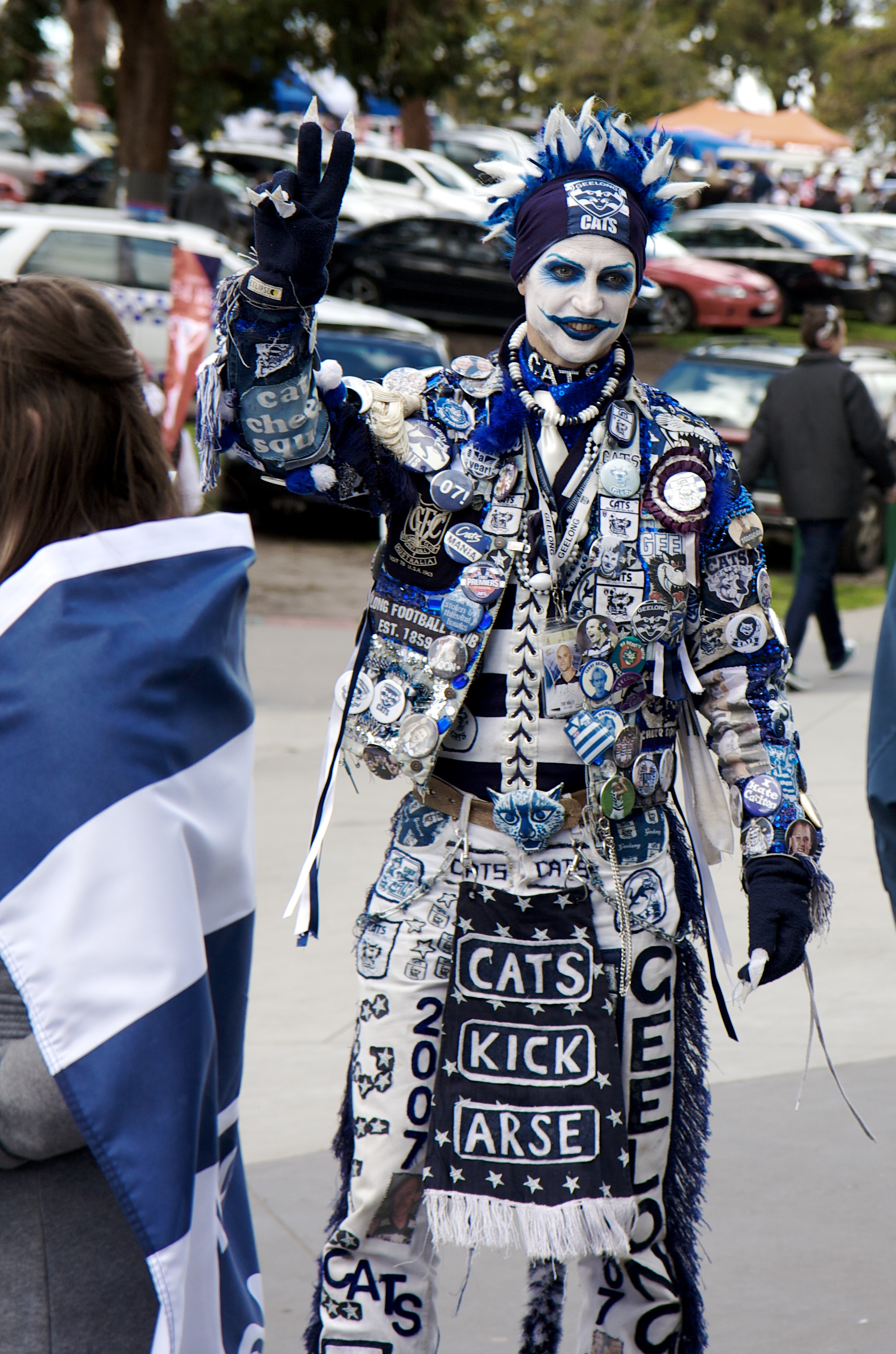 Wikipedia:Geelong Football Club's one-man cheer squad